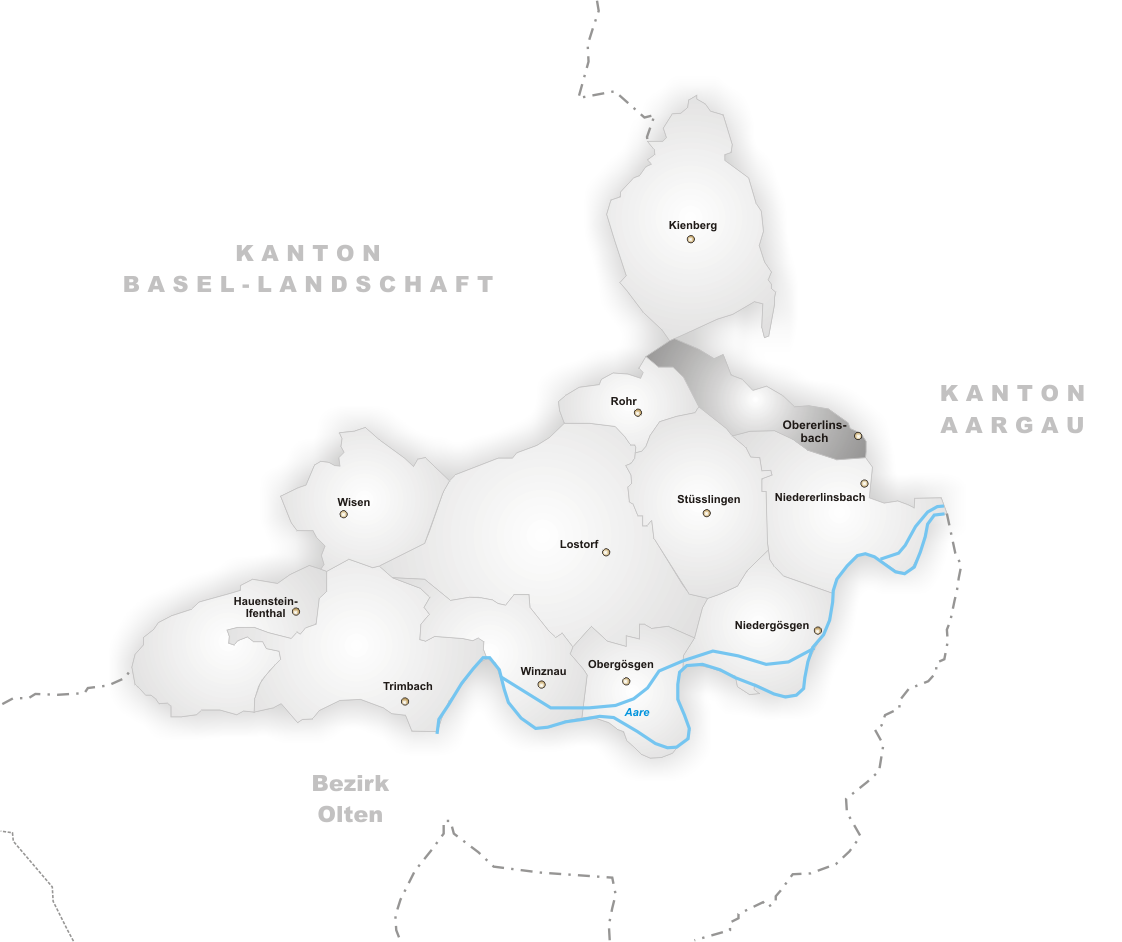 Municipality Oberlinsbach